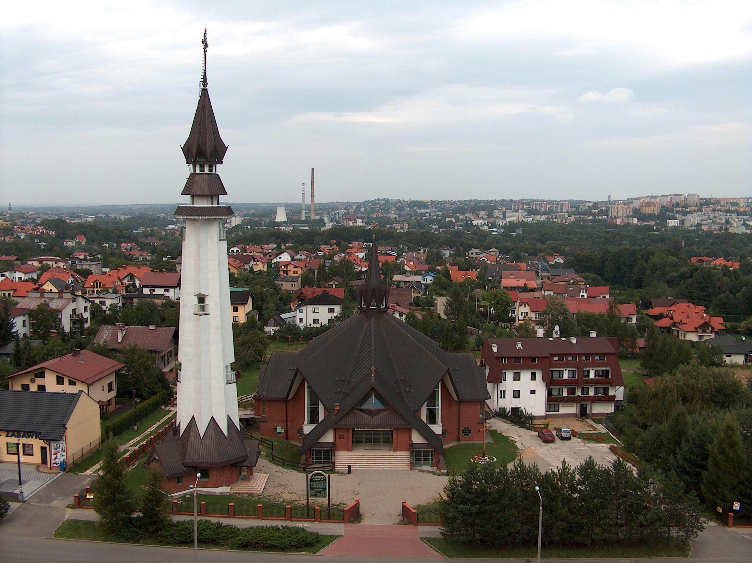 The Pallottine church and Mission House in Bielsko-Biała, Poland